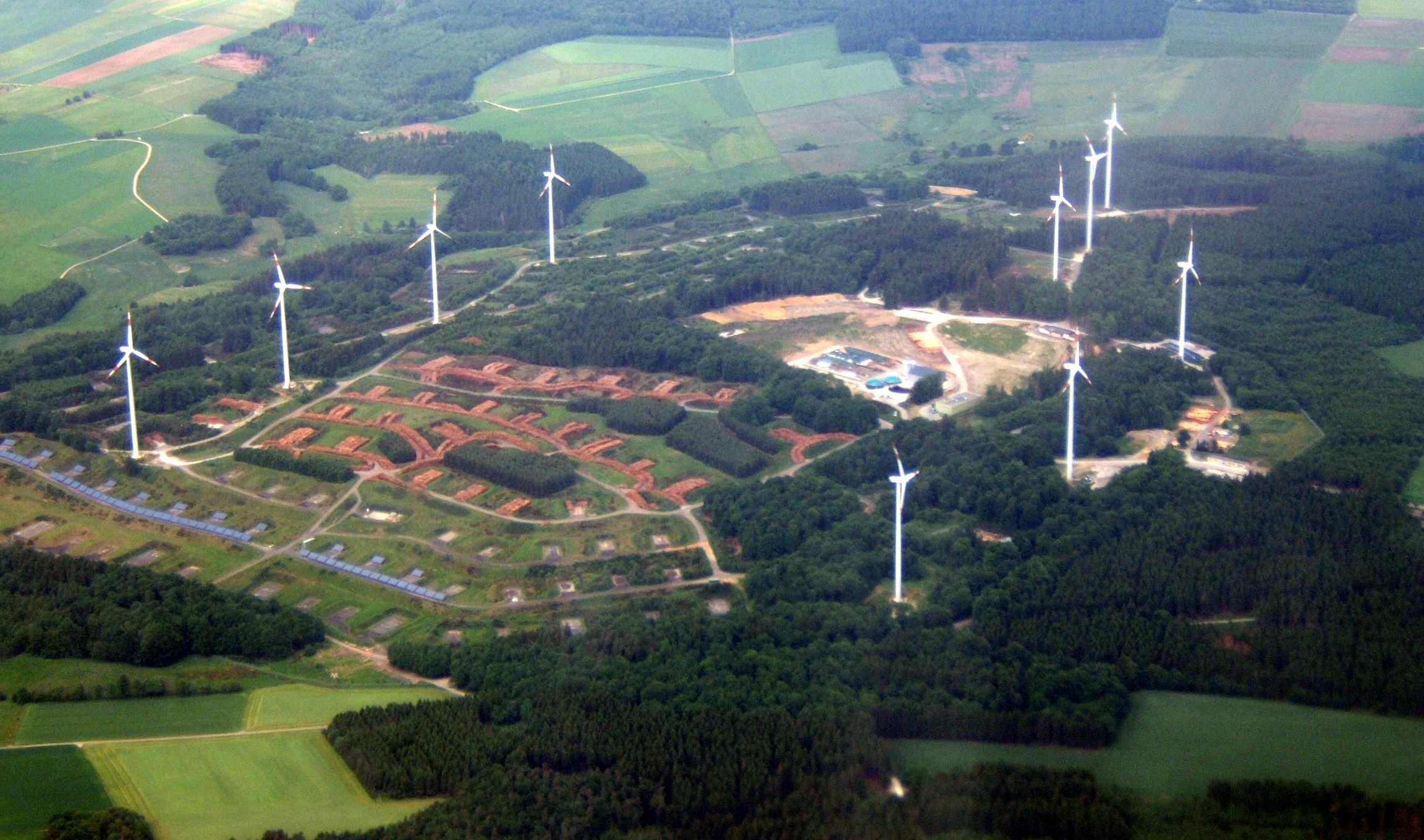 Aerial view of Energiepark Morbach (photovoltaics and wind turbines), near Morbach, Bernkastel-Wittlich, Rhineland-Palatinate, Germany. Picture taken from a plane that was about to land at Frankfurt Hahn airport. (Formerly Hahn Air Base) This property served as a Non-Nuclear Munitions Storage Area for the United States Air Force from the 1950's through the early 1990's. The Energiepark property is situated near the small towns of Wenigerath, Gonzerath, Heinzerath and Morbach. The wind turbines are Vestas V80-2MW units.